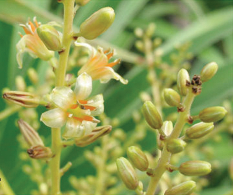 Dracaena kaweesakii. Flowers on partial inflorescence showing tepal, stamen and gynoecium orientation, shape and colour and axis indumentum.